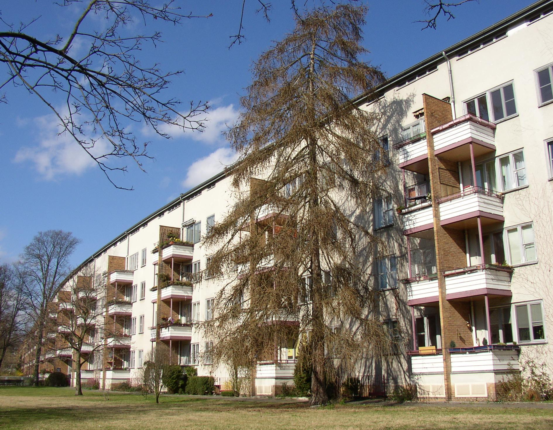 Building by Otto Bartning in „Großsiedlung Siemensstadt“ in Berlin-Charlottenburg, Germany